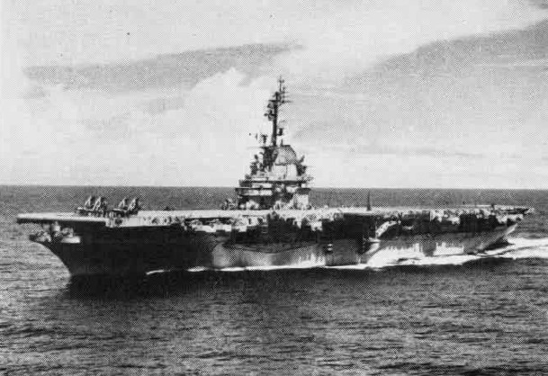 The U.S. aircraft carrier USS Randolph (CVA-15) after her SCB-27A modernization, photographed in 1953-55. Randolph underwent SCB-27A from June 1952 to June 1953, and SCB-125A (mainly hurricane bow and angled deck) from June 1955 to January 1956.